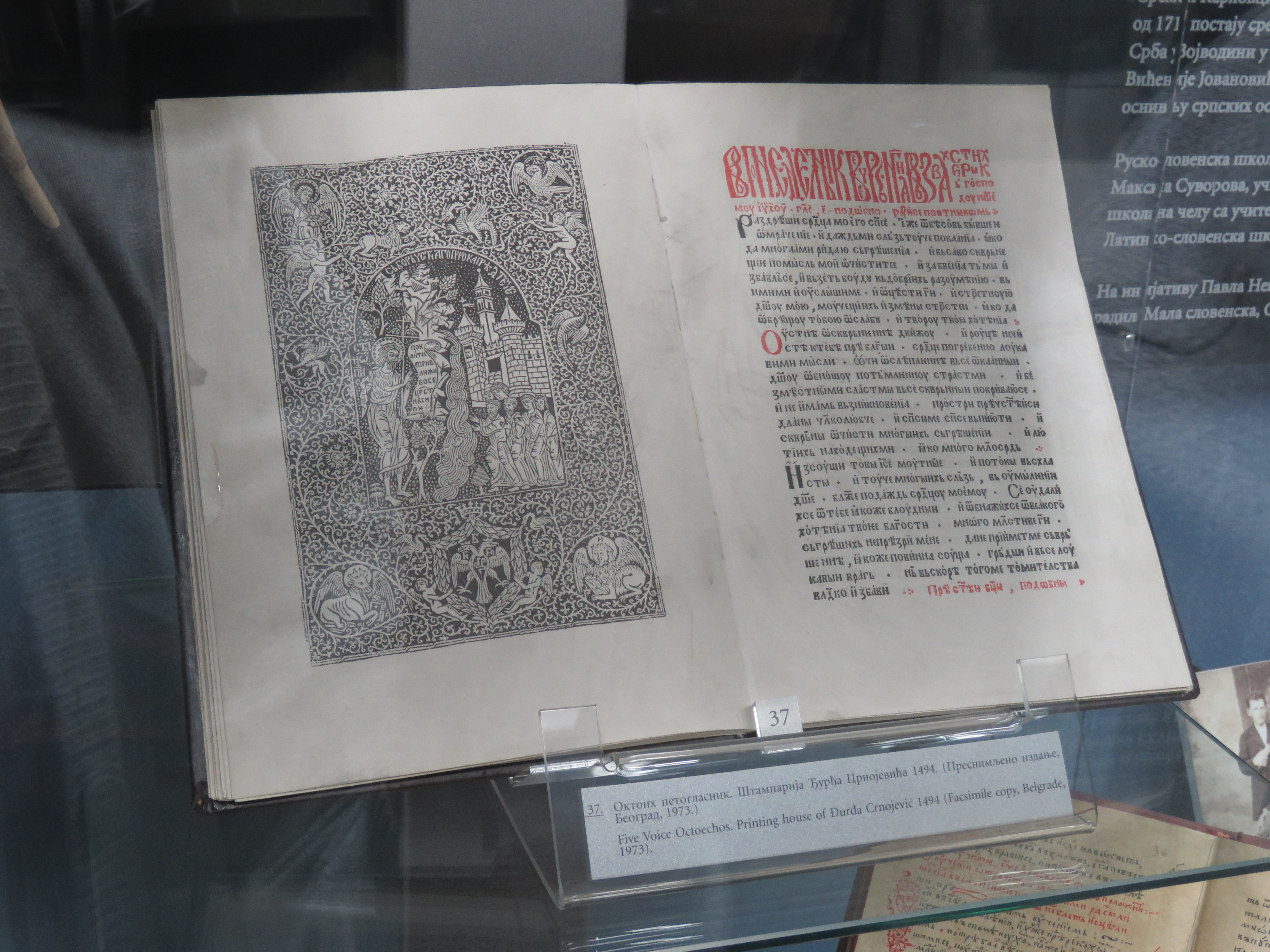 Five voice Octoechos from 1494. copy in Educational museum in Belgrade.